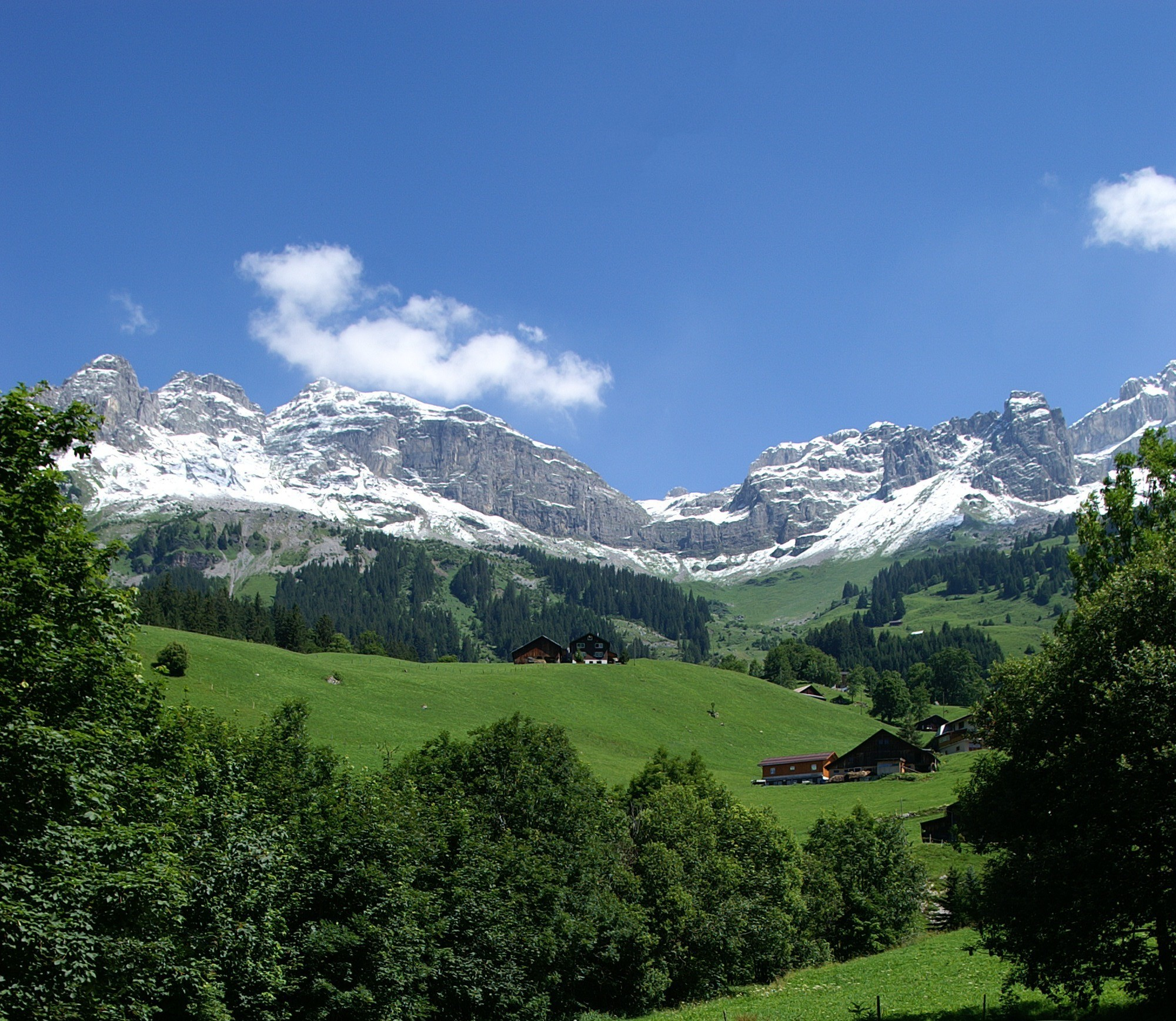 Klausen Pass (el. 1948 m.) is a high mountain pass in the Swiss Alps connecting the cantons of Uri and Glarus.